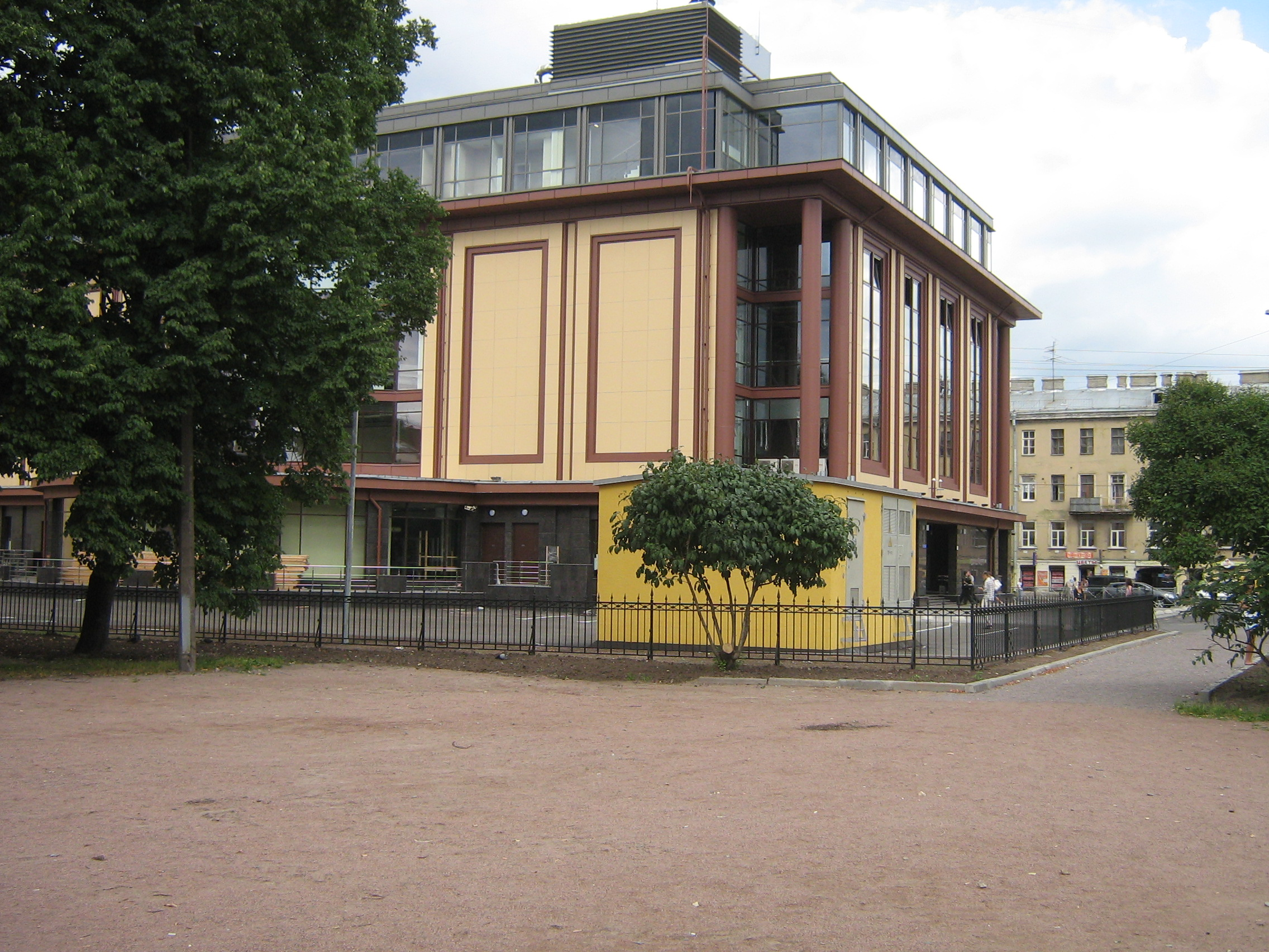 Saint Petersburg (Russia), Marat Street.